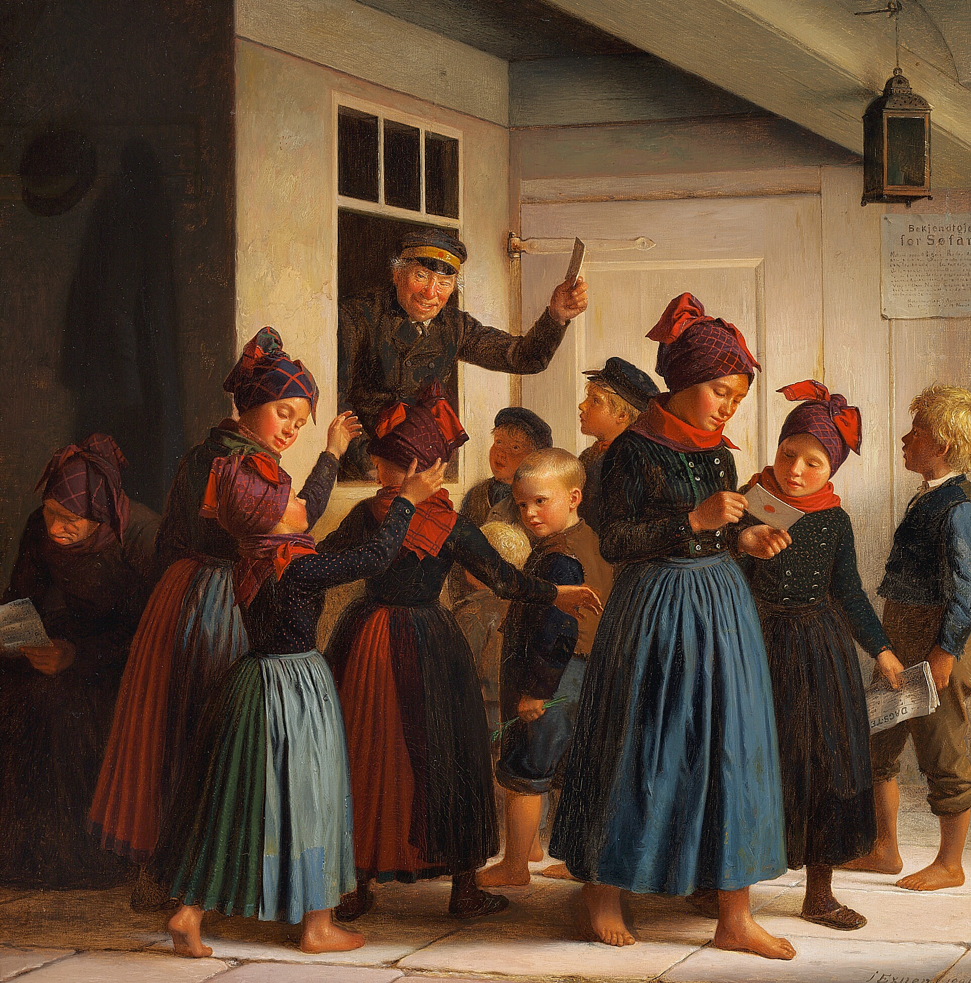 From the island of Fanø